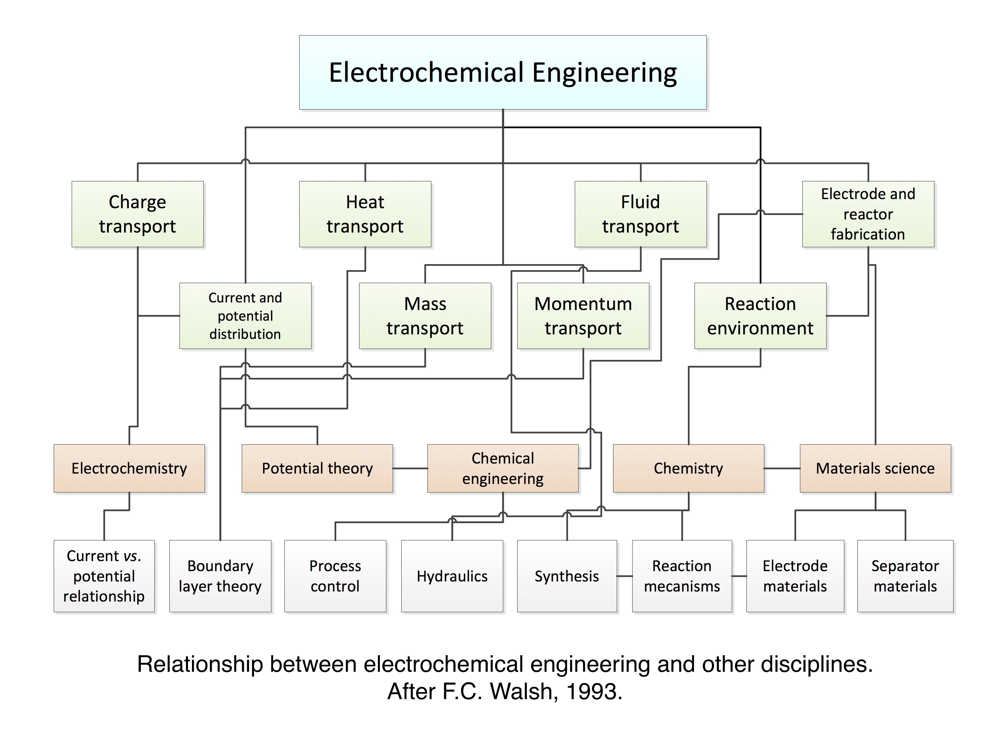 This show the relationship between electrochemical engineering and other disciplines.